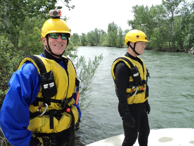 Boise firemen on the Boise River practising swiftwater rescue drills. Note the helmet-mounted video camera.